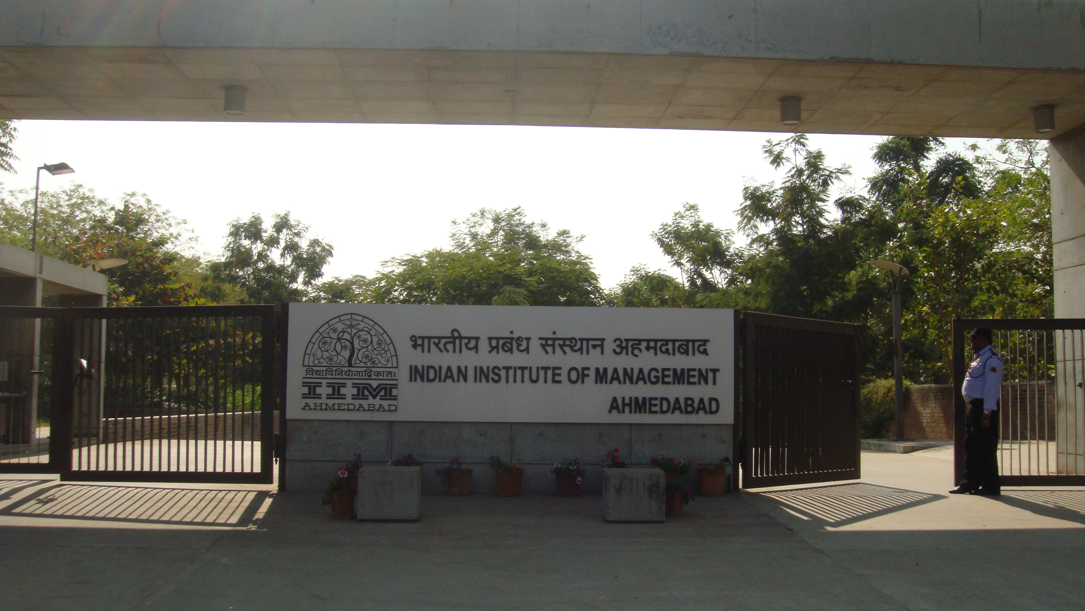 IIM A